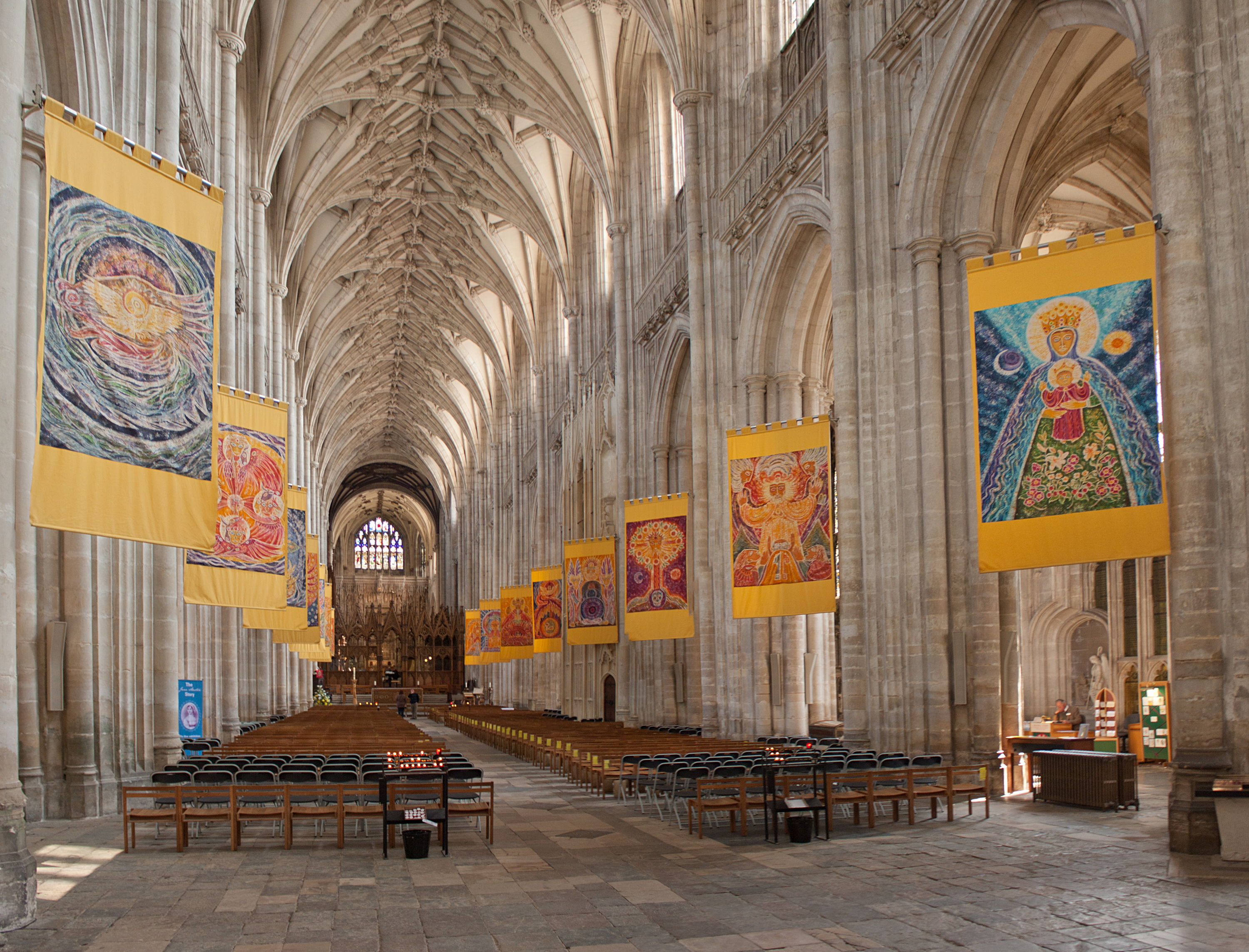 Cathedral Church of the Holy Trinity